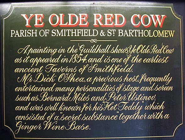 Information board about Ye Olde Red Cow pub. The board is on the left hand side of the covered passage in 1127932.